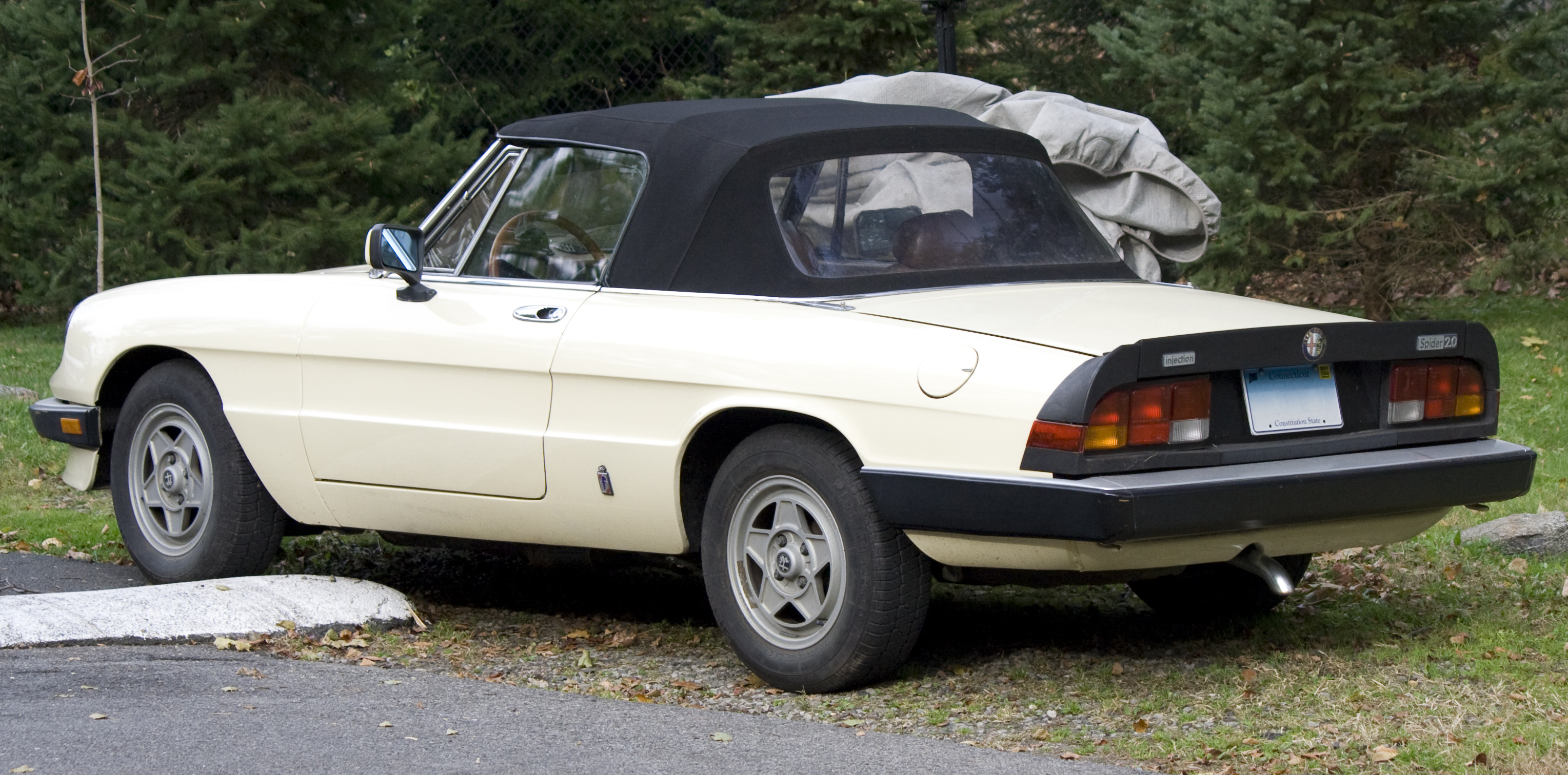 Rear view of 1984 Alfa Romeo Spider 2.0 Injection, US market version (who else would paint one beige?)